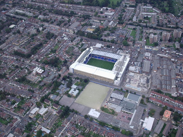 Aerial view Tottenham Hotspur Football Club Photograph taken from helicopter encircling the ground. Picture shows the rear of the East Stand. Taken facing west with Bruce Castle Park in the far background